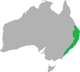 Range of Ailuroedus crassirostrus.